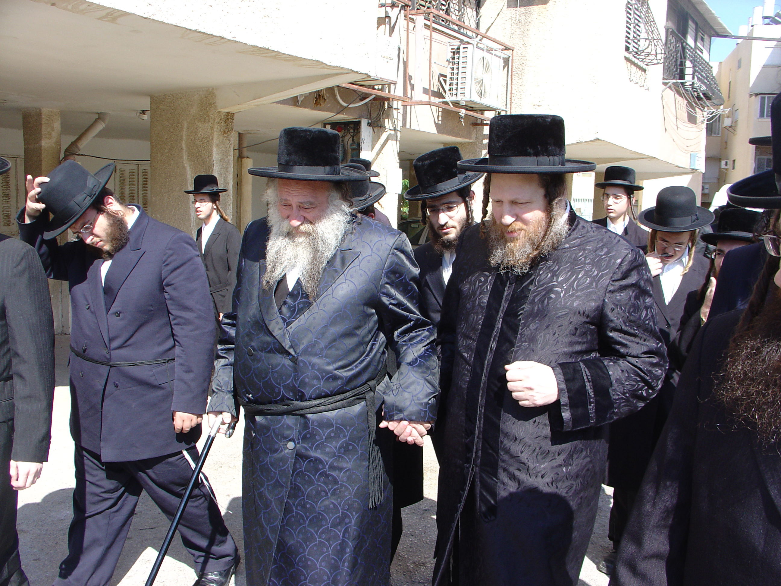 Hasidic Grand Rebbes of the Nadvorna dynasty Reb Shmuel Shmelke Leifer of Chust (USA) and Reb Mordechai Yissachar Ber Leifer of Pittsburgh (Ashdod)